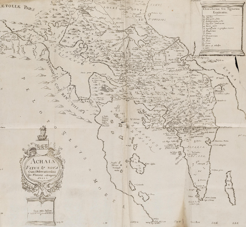 George Wheler, A Journey into Greece. 1682. Map of Achaia